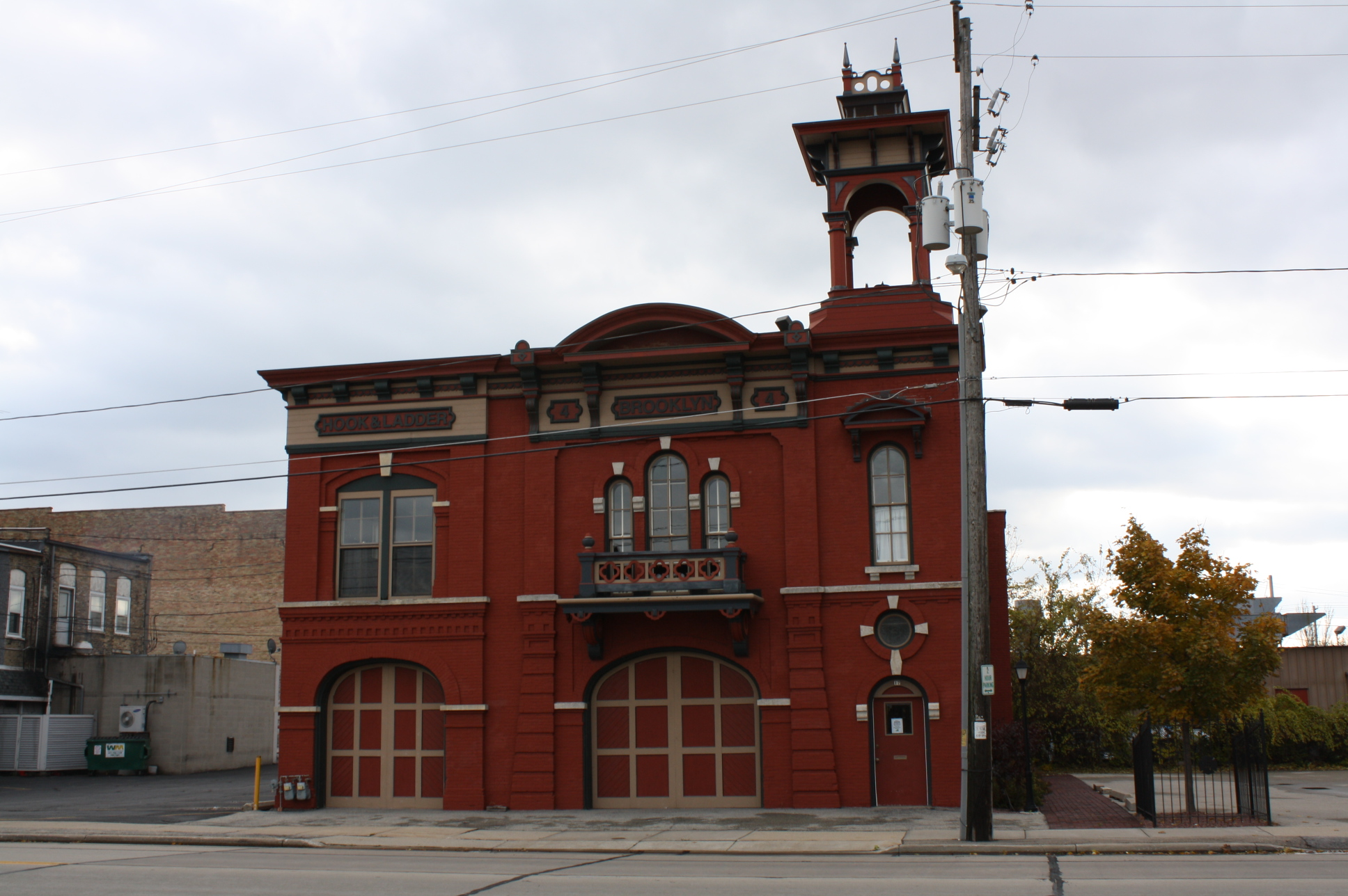 The Brooklyn No. 4 Fire House in Oshkosh, Wisconsin, listed on the National Register of Historic Places.